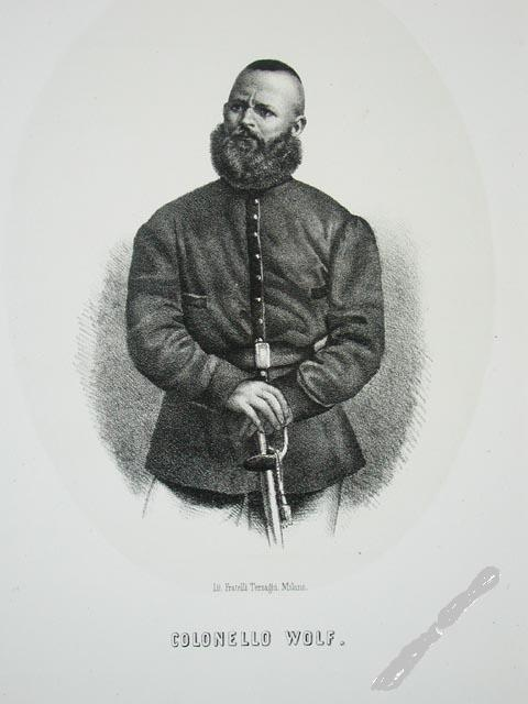 Image of Adolfo Luigi Wolff from 1861. The subject and original photographer have been dead for over a century. Public domain.